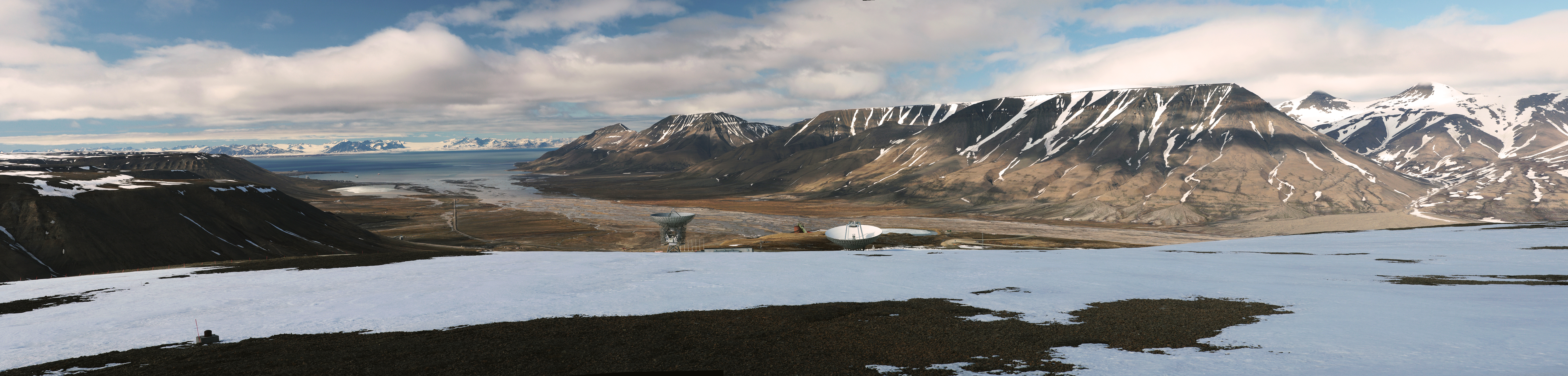 Adventdalen seen from the Kjell Henriksen Observatory